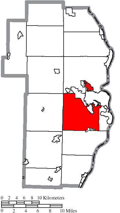 Map of the municipal and township boundaries of Jefferson County, Ohio, United States, as of the 2000 census, with the location of Cross Creek Township highlighted. Township borders are shown only in unincorporated areas in order to differentiate incorporated and unincorporated areas more clearly.